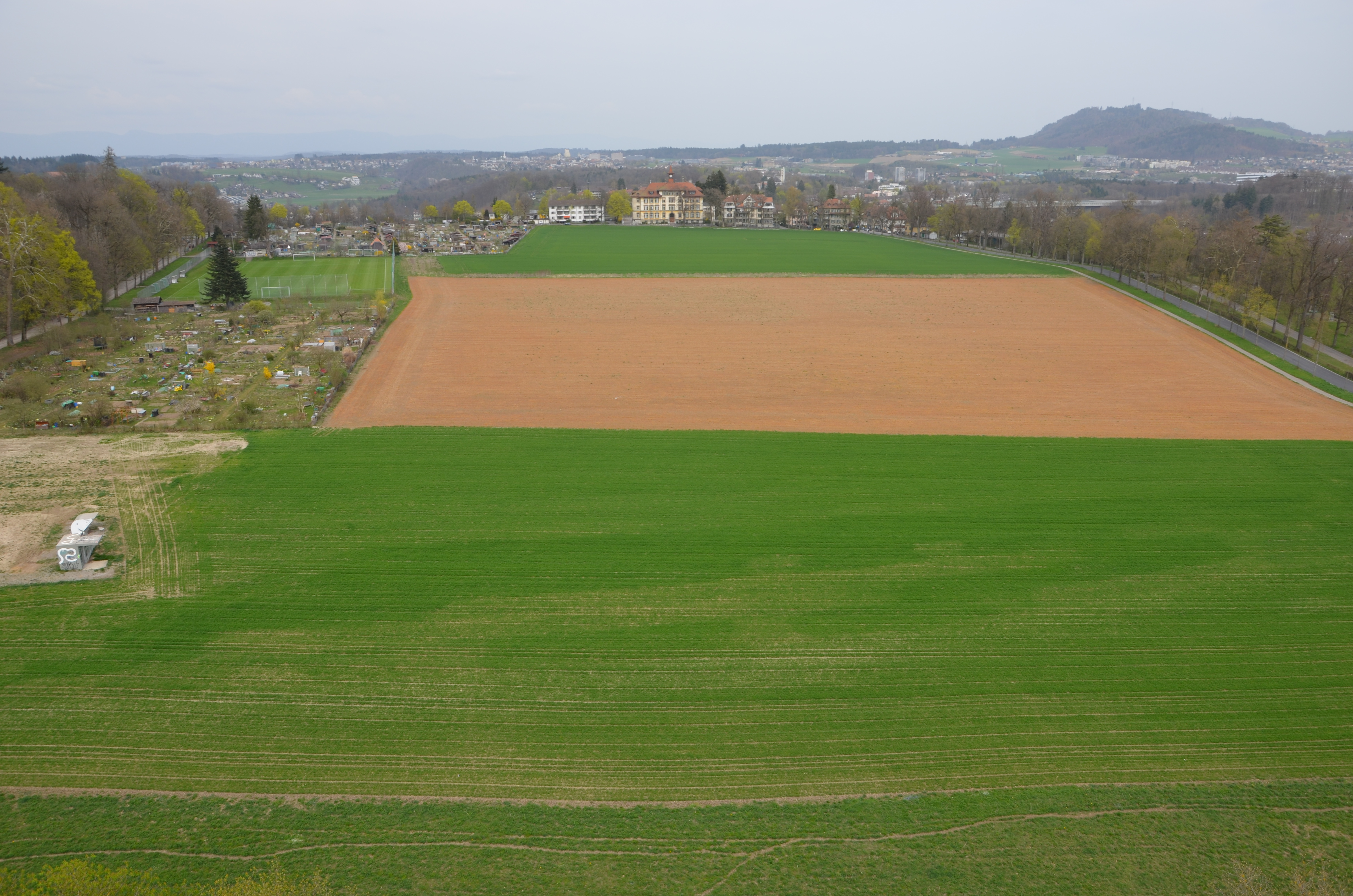 View of the Viererfeld from the roof top of Burgerspittel.